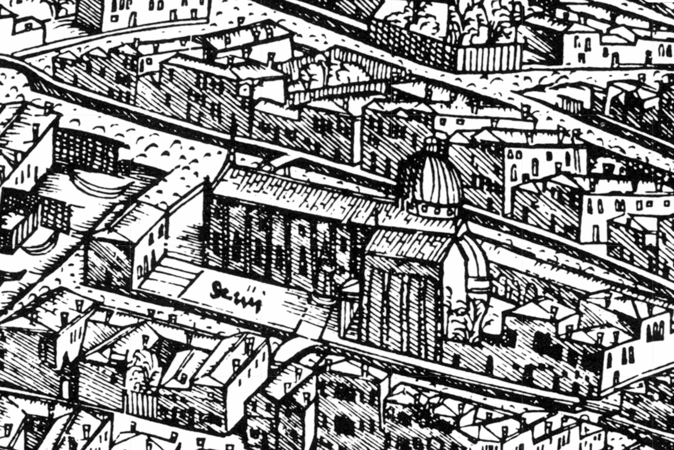 Jacopo de' Barbari (Venetian, c. 1460/1470 - 1516 or before), View of Venice [detail], church of Santa Maria dei Servi, 1500, woodcut on two sheets pasted together, Rosenwald Collection 1950.1.14